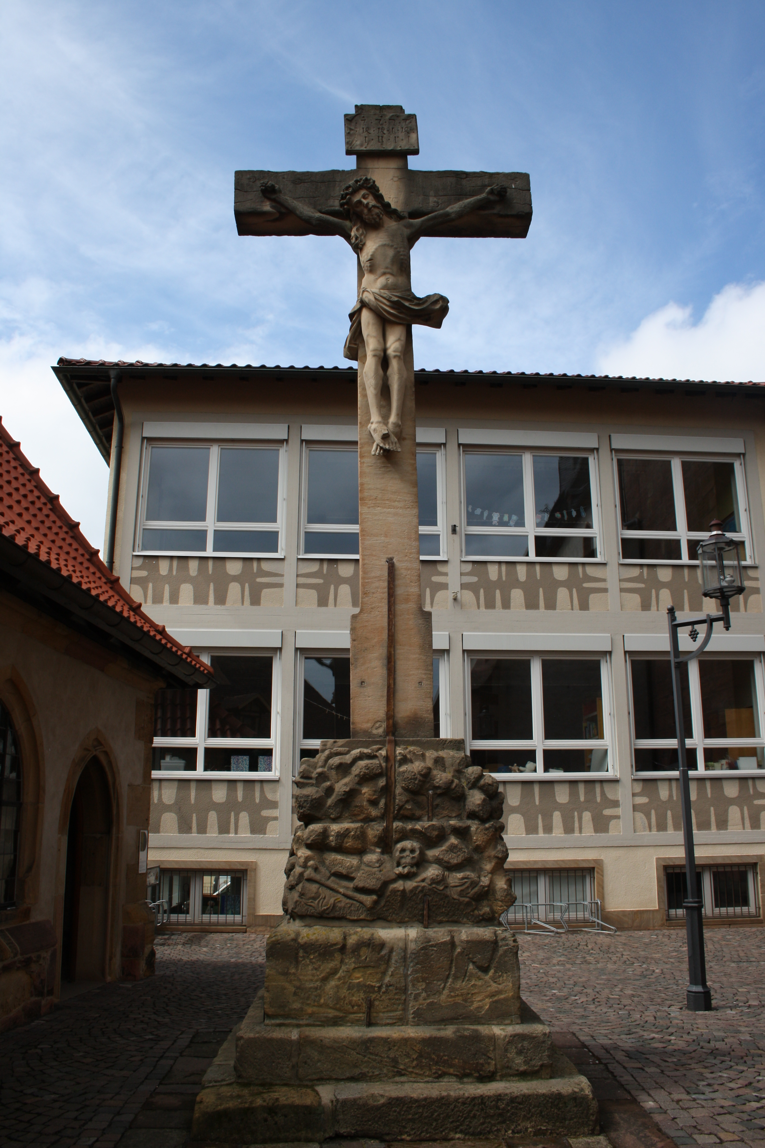 Germany, Kruzifix (1534), Kirchhof St. Ulrich Deidesheim